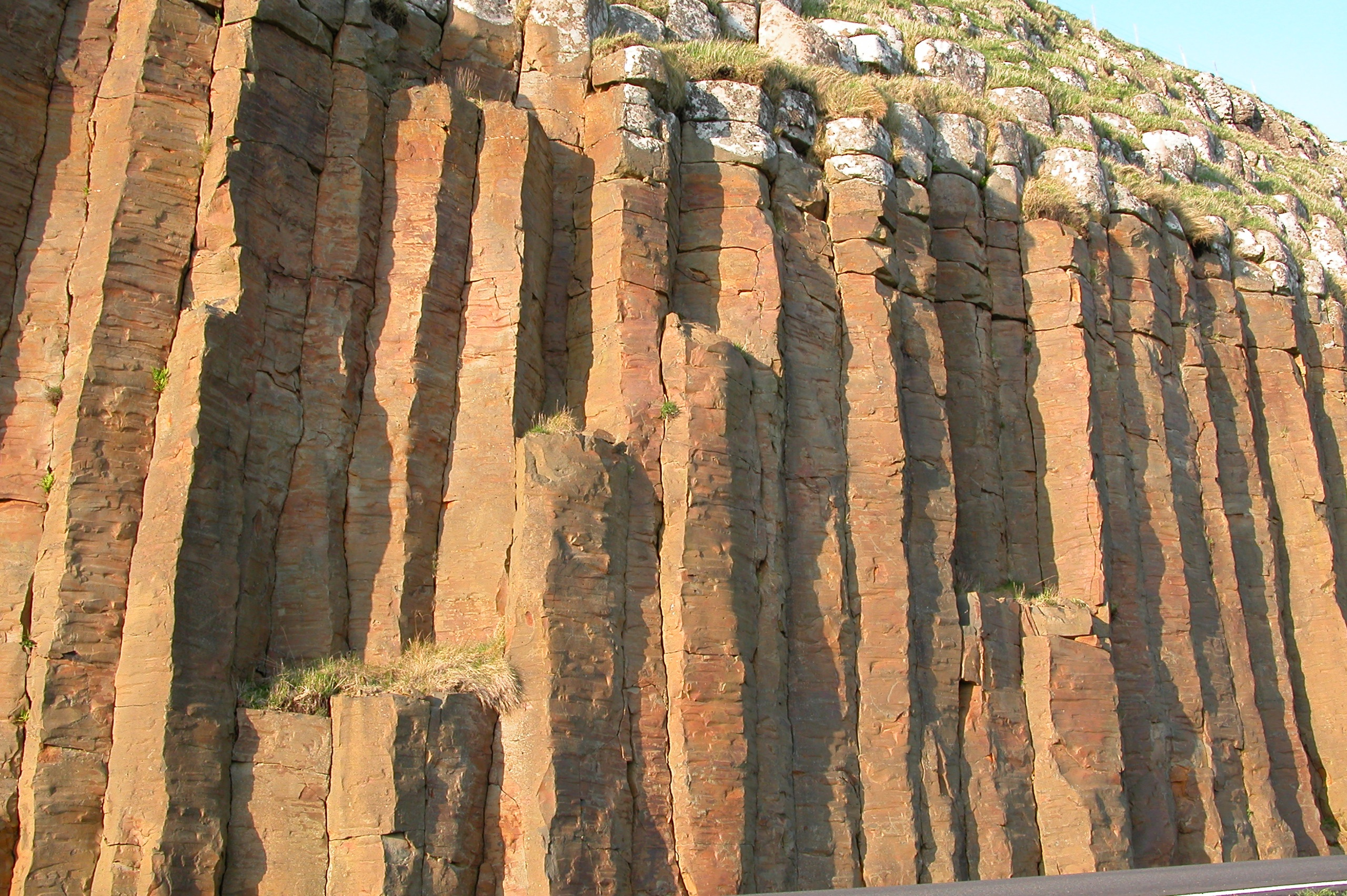 Columnar basalt at Froðba, Faroe Islands